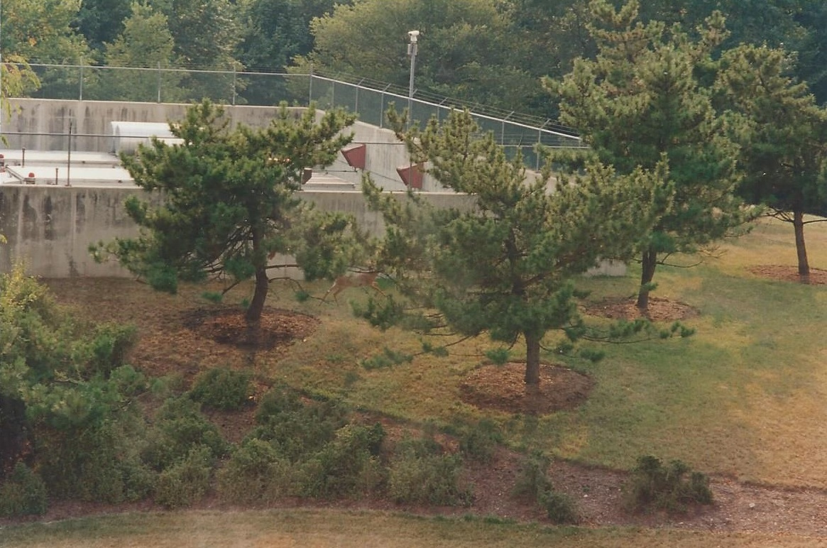 On the Exxon Research and Engineering campus in Florham Park, New Jersey, a storage facility of some kind, guarded by a barbed-wire fence, as seen from a window in Building 103. A white-tailed deer can be seen in motion in the foreground.